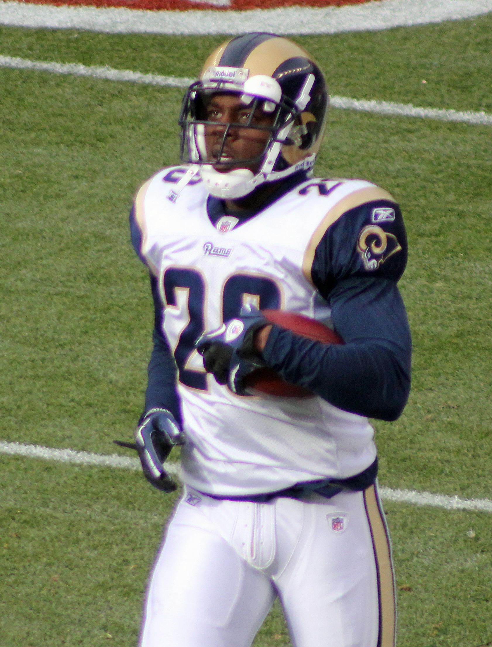 Darian Stewart, a player on the Saint Louis Rams American football team.